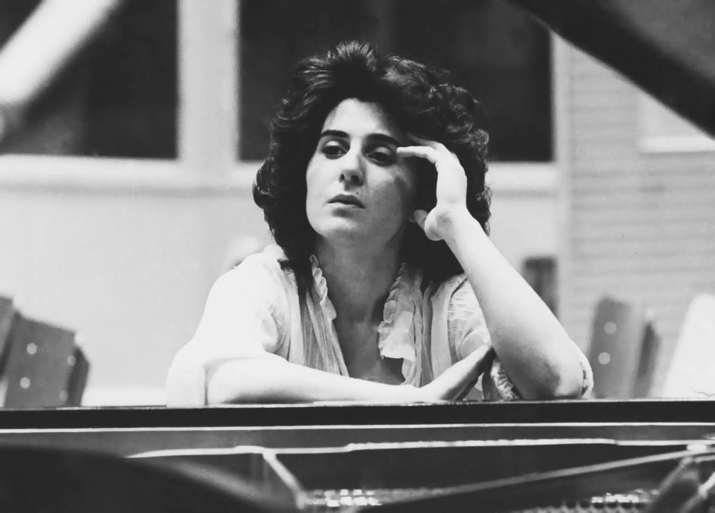 Danae Kara portrait in 1982 at Columbia Studios, Athens, Greece. Photo by Takis Papageorgiou.